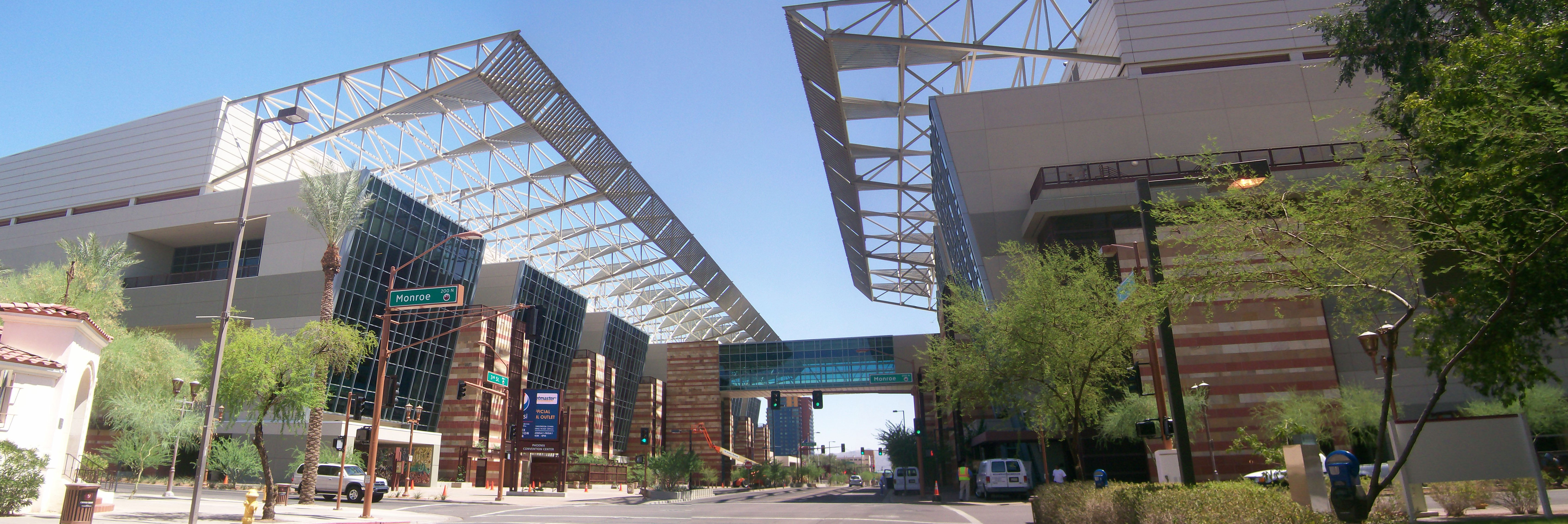 Photo of the Phoenix Convention Center on 3rd Street looking South.